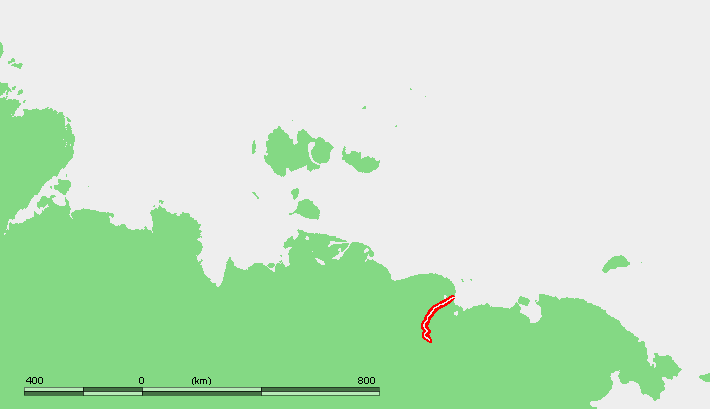 Location map